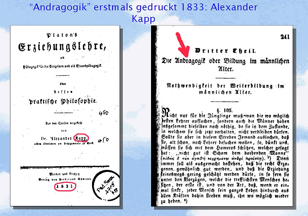 Pages from Alexander Kapp's book using the term Andragogik 1833